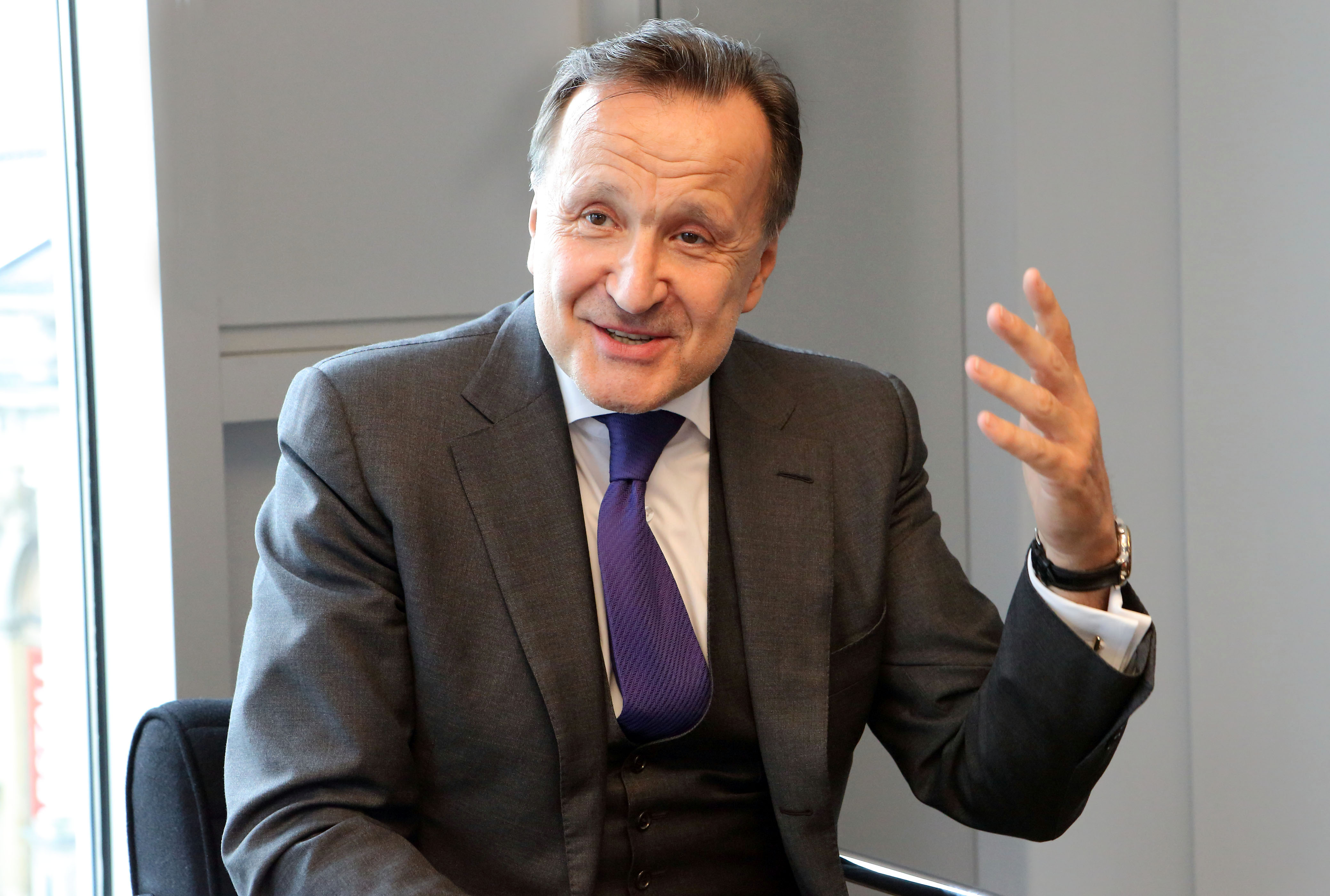 Nikolaus Bachler chatting in his office at the Bayerische Staatsoper